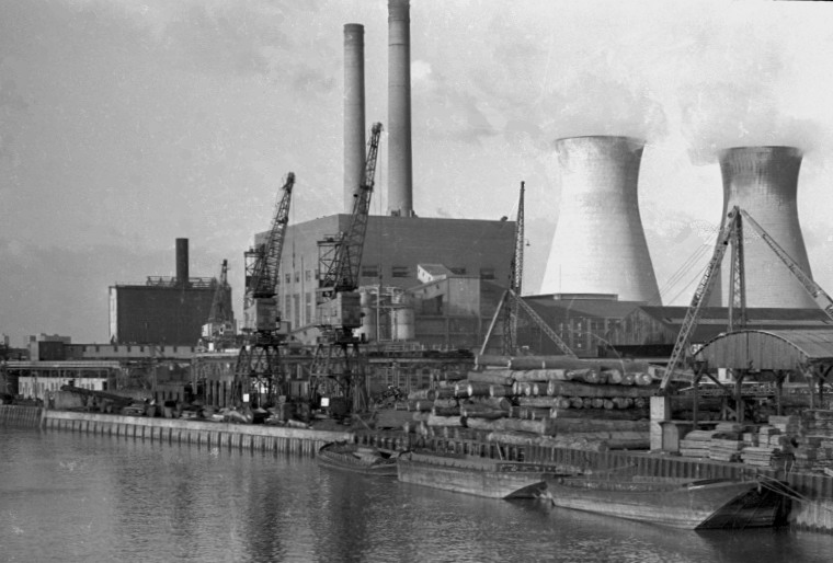 West Ham 'B' Power Station, December 1973, by Peter Land. Viewed across Bow Creek from the East India Dock Road bridge.